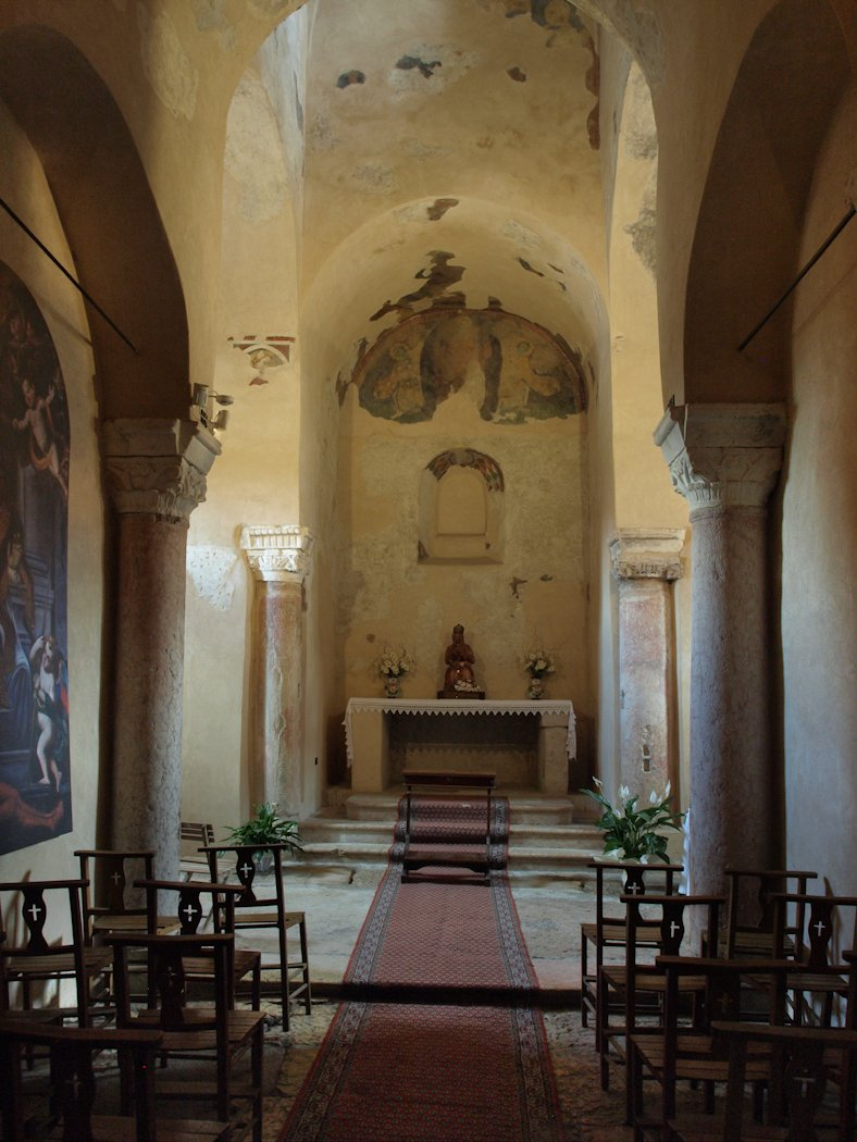 Italy, Bardolino(Veneto), San Zeno, Interior, photo 2011